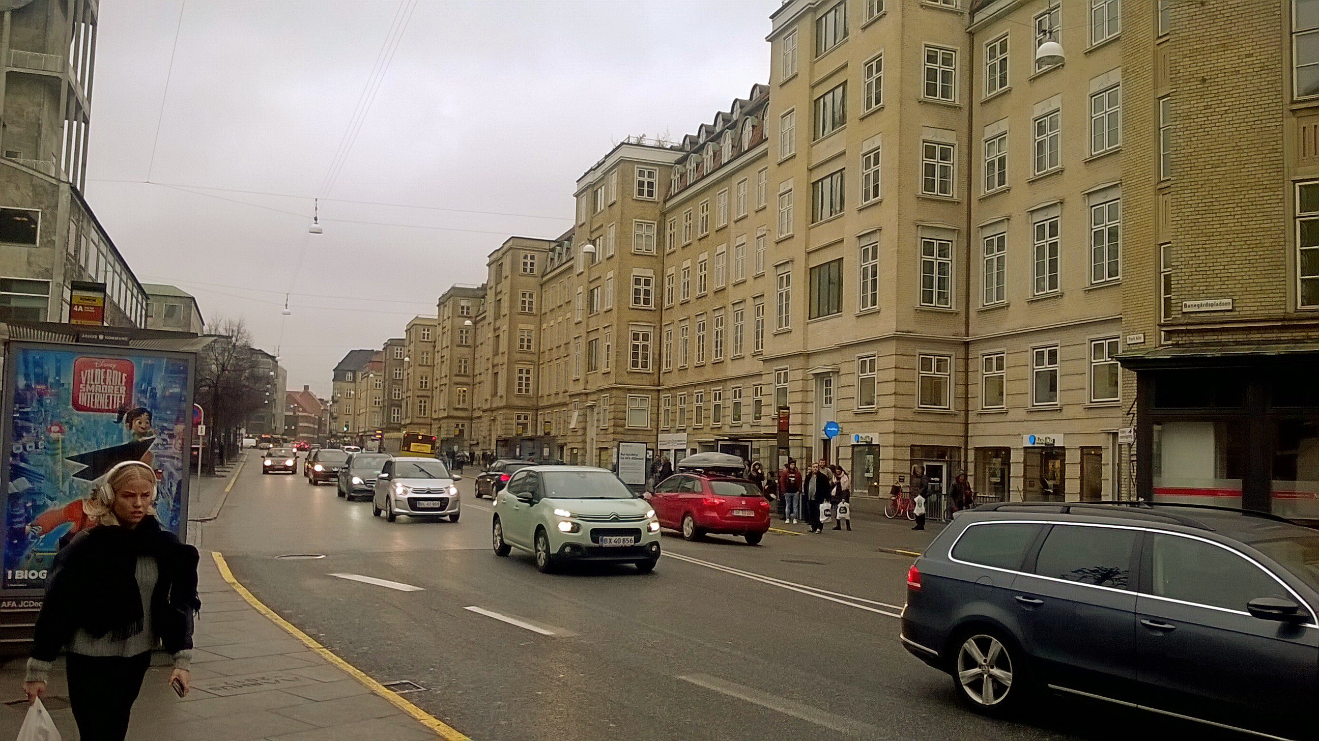 Park Allé, Aarhus C